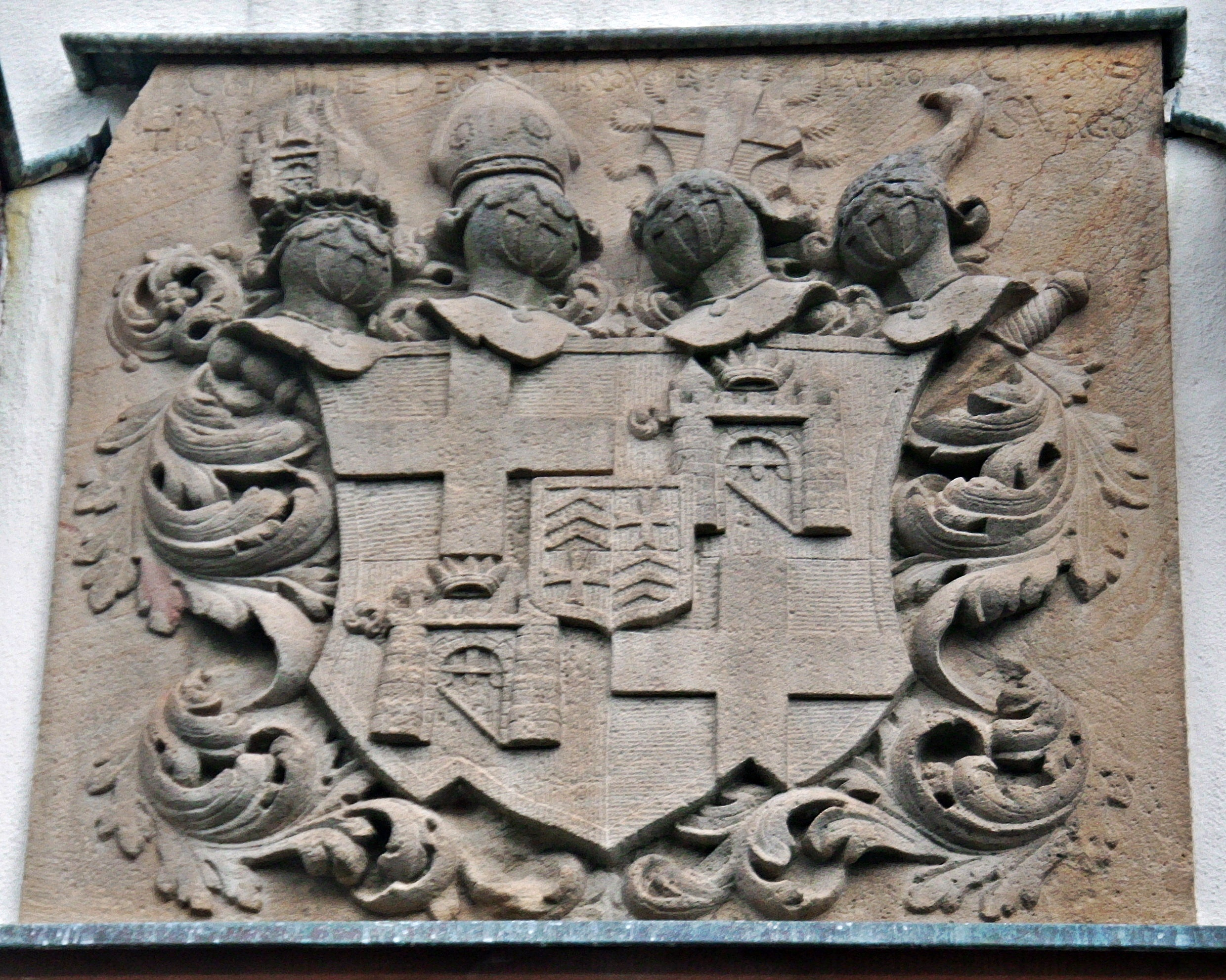 Kath. Pfarrkirche St. Barbara, Hainfeld, Wappen des Speyerer Fürstbischofs Heinrich Hartard von Rollingen (1718)